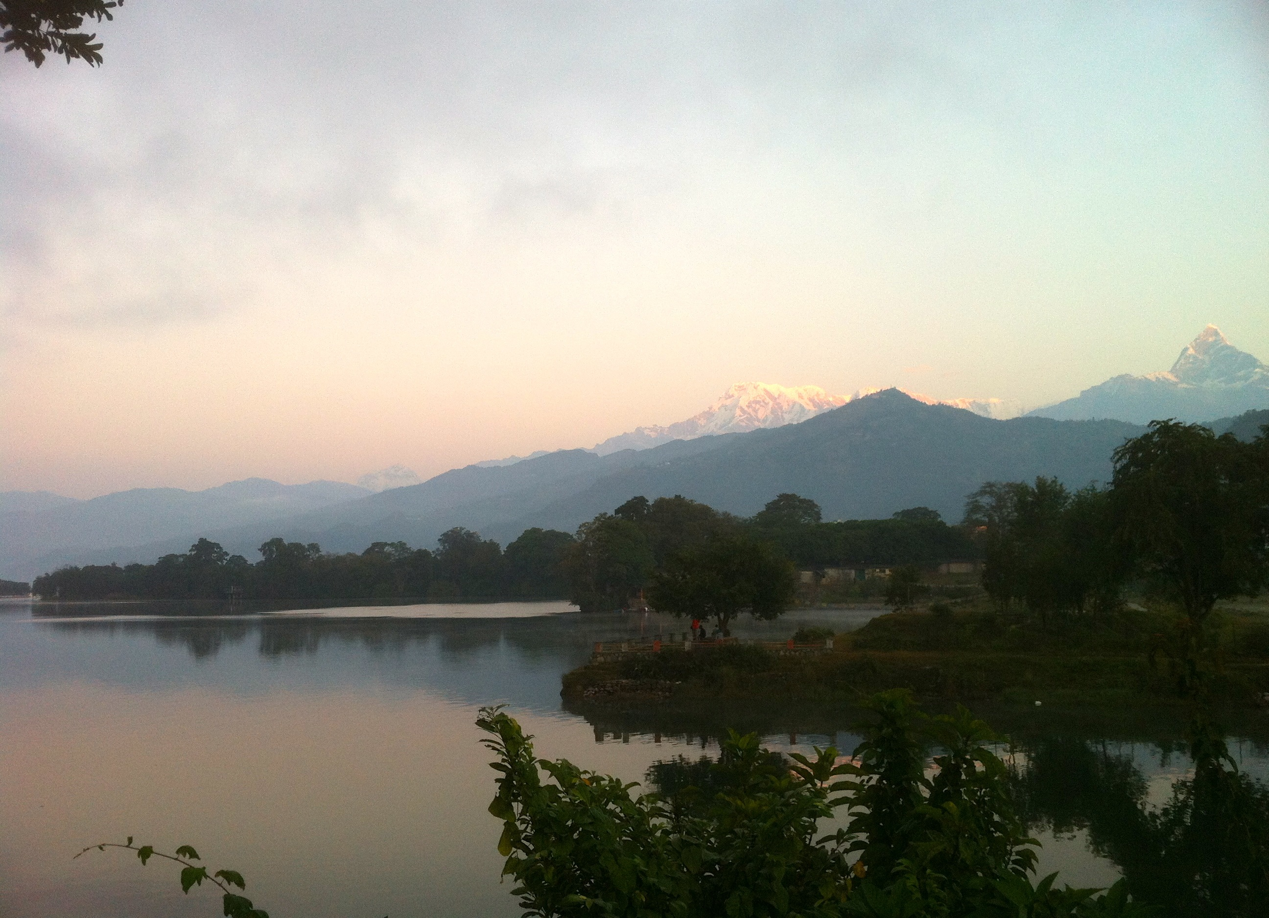 View on Phewa lake, background Tilicho and Anapurna (right) taken from Fish Tail Lodge in Pokhara Nepal.